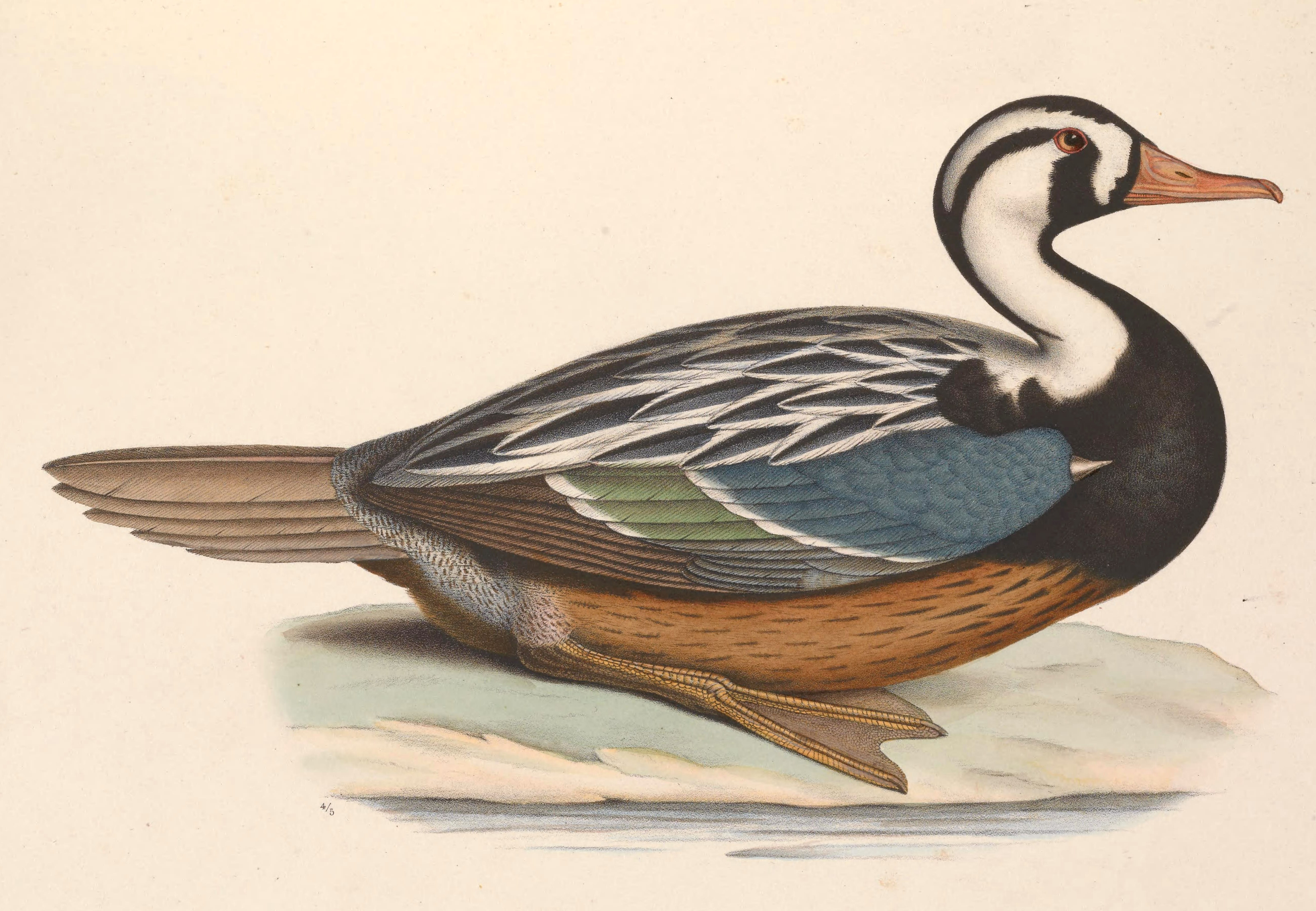 Merganetta chilensis = Merganetta armata (Torrent Duck) - male